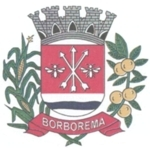 Shield of city of Borborema, São Paulo, Brazil